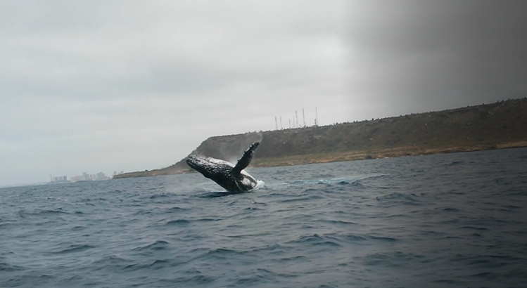 Humpback whale near Salinas, Ecuador